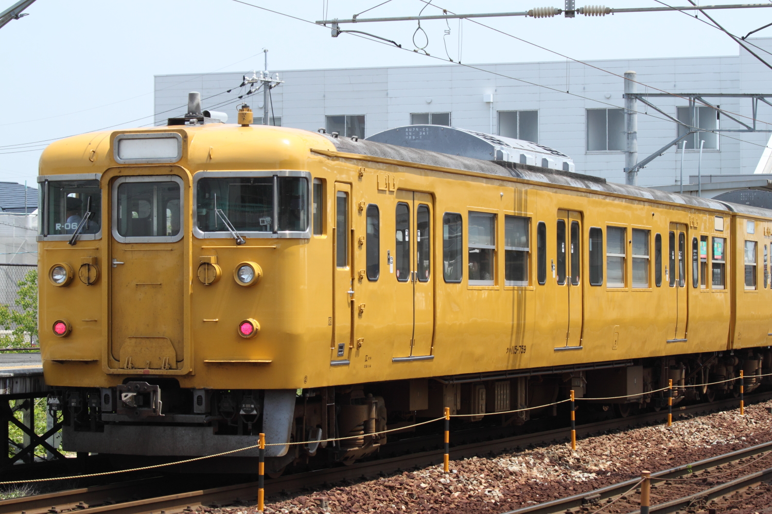 JR West 115 series EMU (KuHa 115-759) at Kitanagase Station